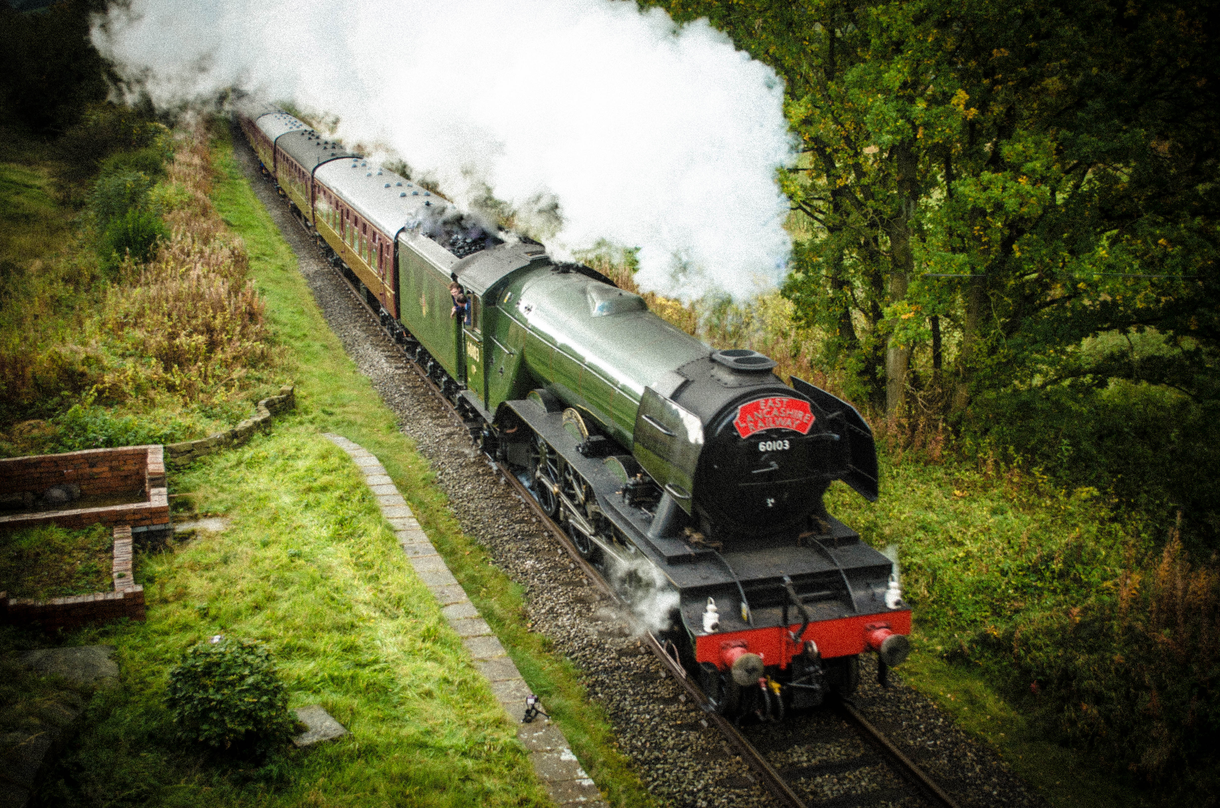 LNER A3 'Flying Scotsman' - 60103 (BR Green Livery) traveling north bound towards Rawtenstall, Pictured from on Blackburn Road bridge at Ewood Bridge.